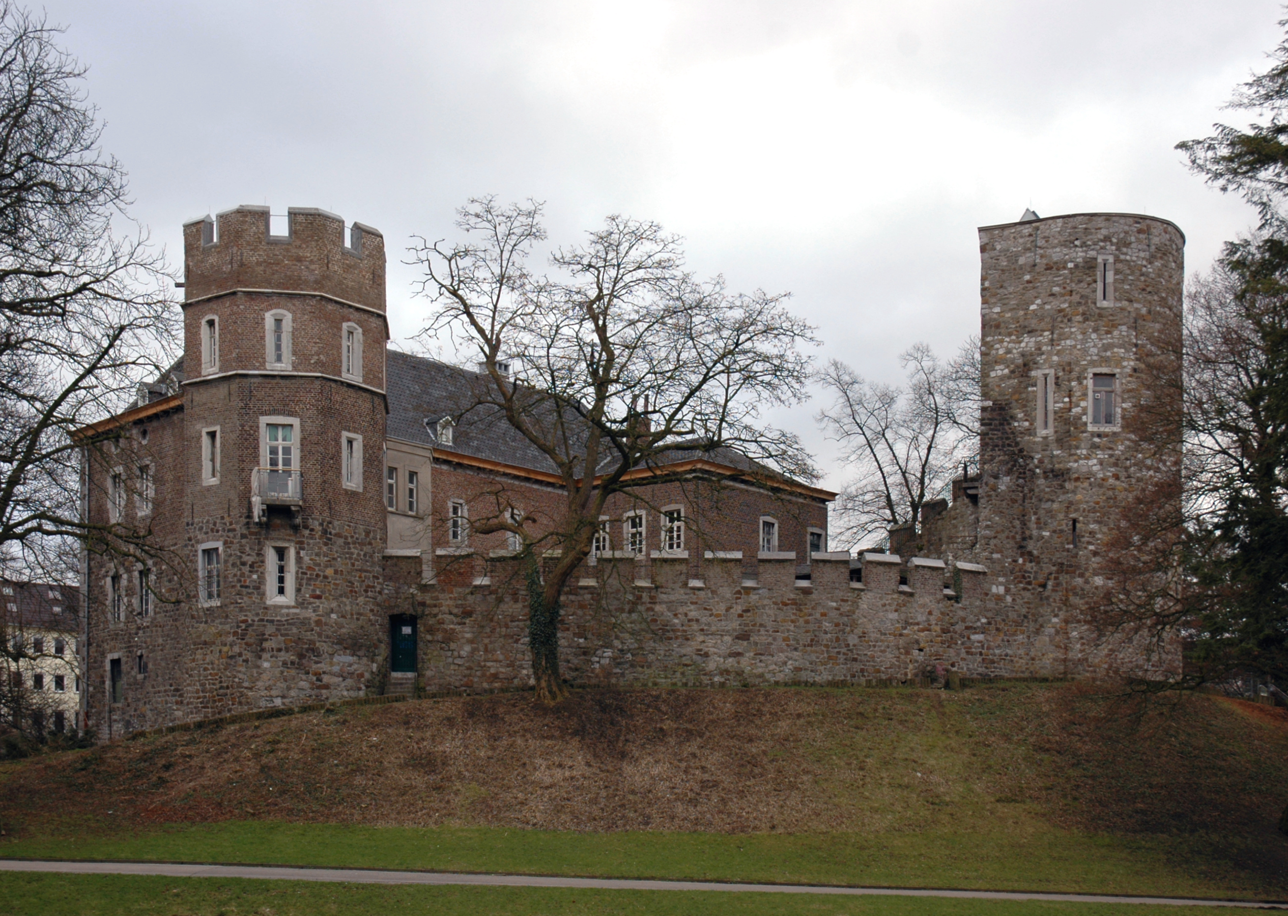 Frankenberg Castle in Aachen, north-western aspect